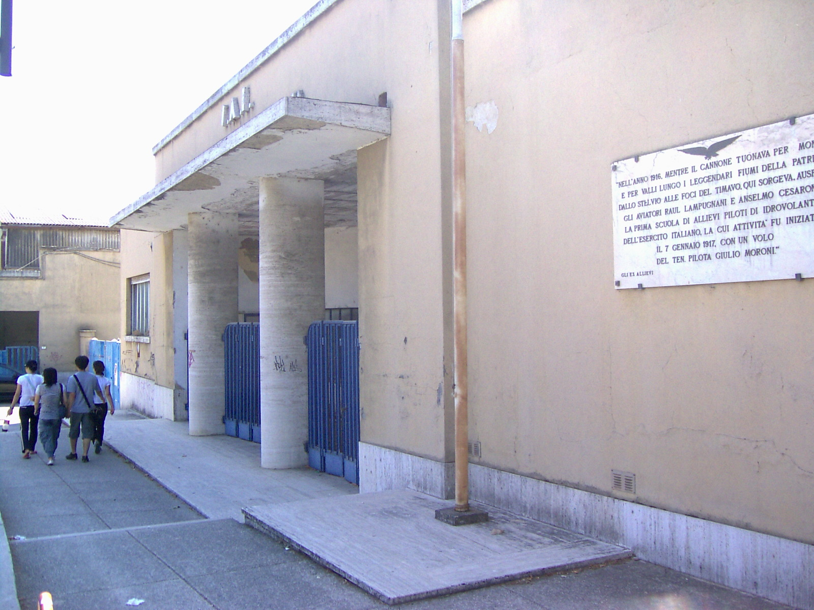 SAI Ambrosini, now a social center, near Passignano railstation.